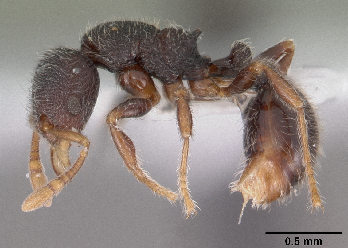 Profile view of ant Lasiomyrma gedensis specimen casent0102364.